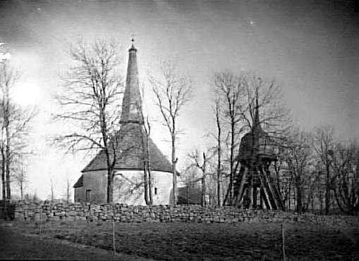 Skörstorps kyrka, Sweden, 1890. Photo by Sanfrid Welin. Västergötlands museum.